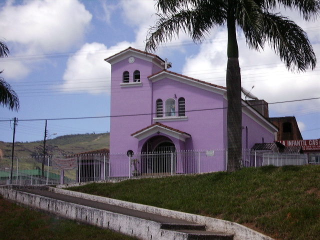 View of the Saint Louis de Montfort Church, in João Monlevade, Minas Gerais, Brazil.